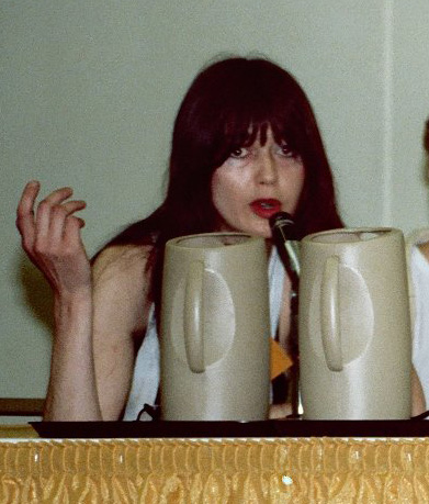 Dori Seda (1951-1988) on the Women In Comics panel at the 1982 San Diego Comic Con (today called Comic-Con International).